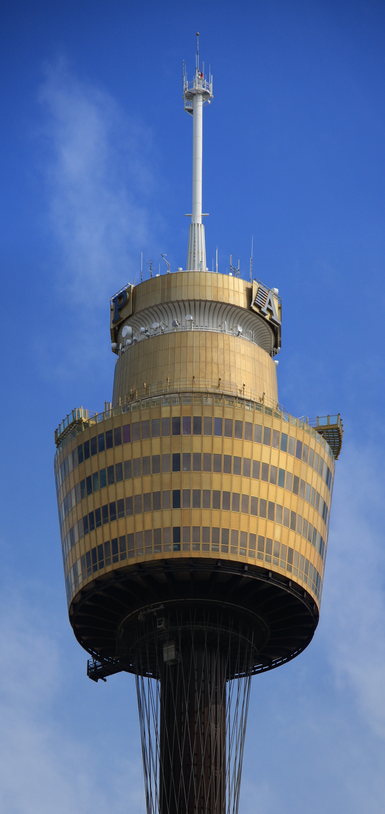 Center point tower in Market st Sydney. If you look closely at the image you will see people looking out the window. The image was taken at the entrance to the domain near St Mary's cathedral using an 18-200 lens, focal length 140 mm